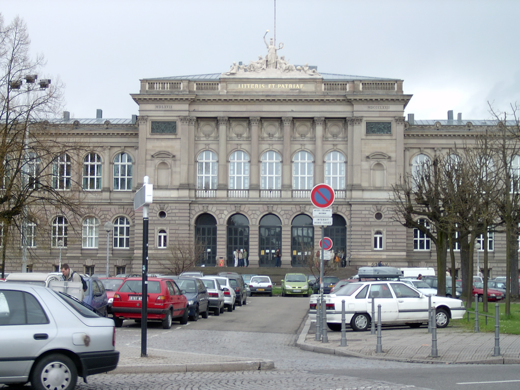 Strasbourg, Alsace, France: University Palace, at University square